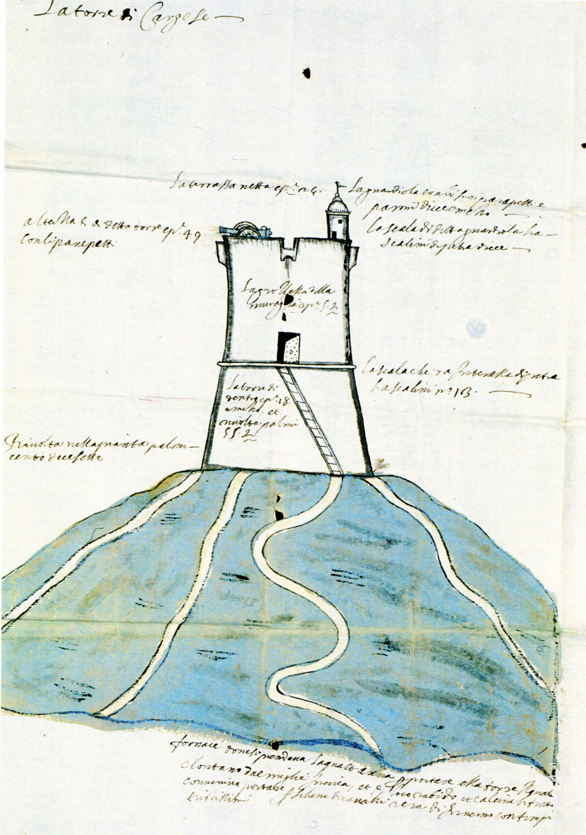 Drawing of the Tour de Cargese, Corsica